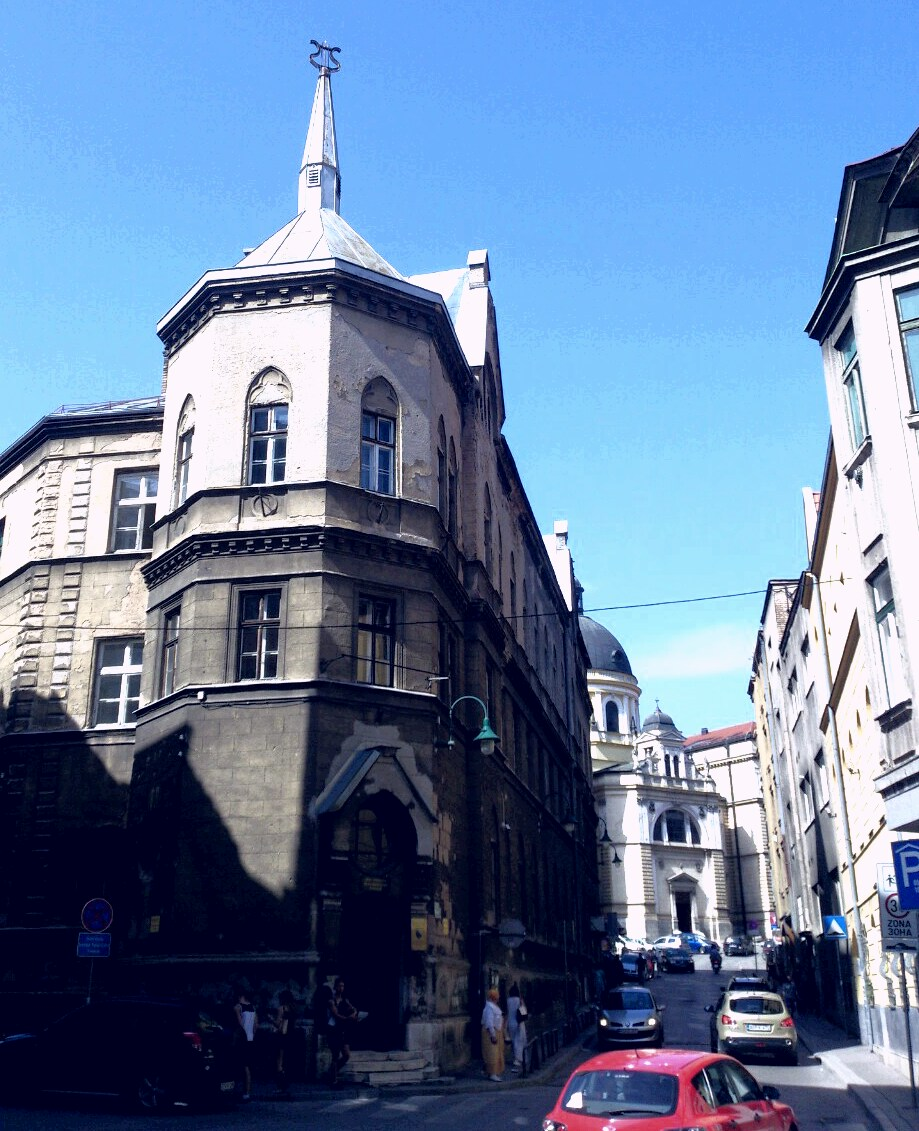 Photo of Sarajevo Music Academy Building